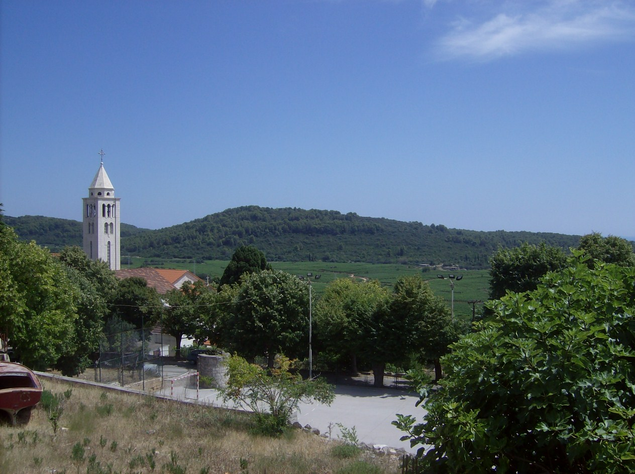 Town of Čara on the island of Korčula, Croatia, Europe